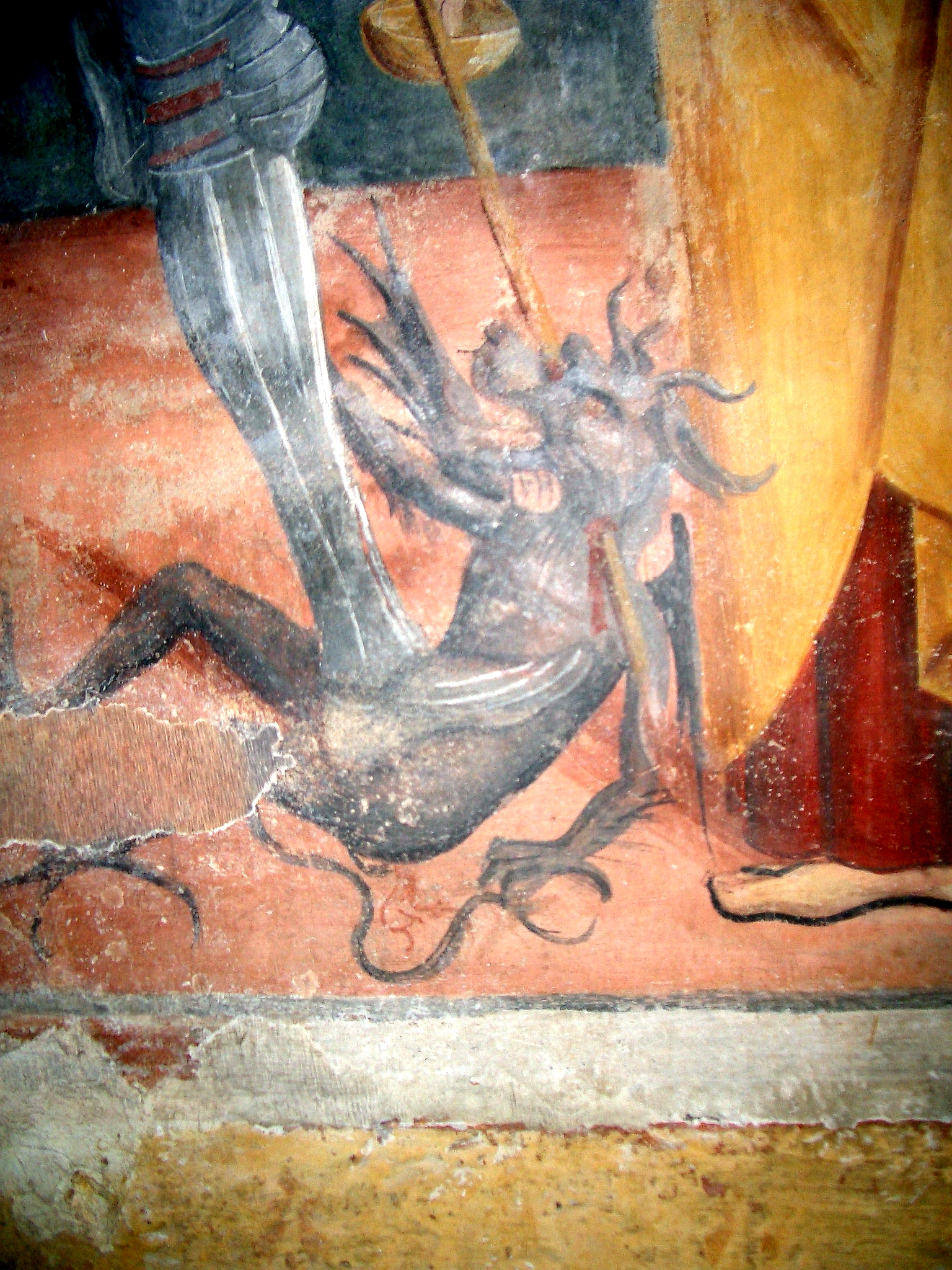 San Pietro Vecchio church , School of Martino Spanzotti, St Michael and Saint Peter (detail of the devil), Favria, Turin, Italy